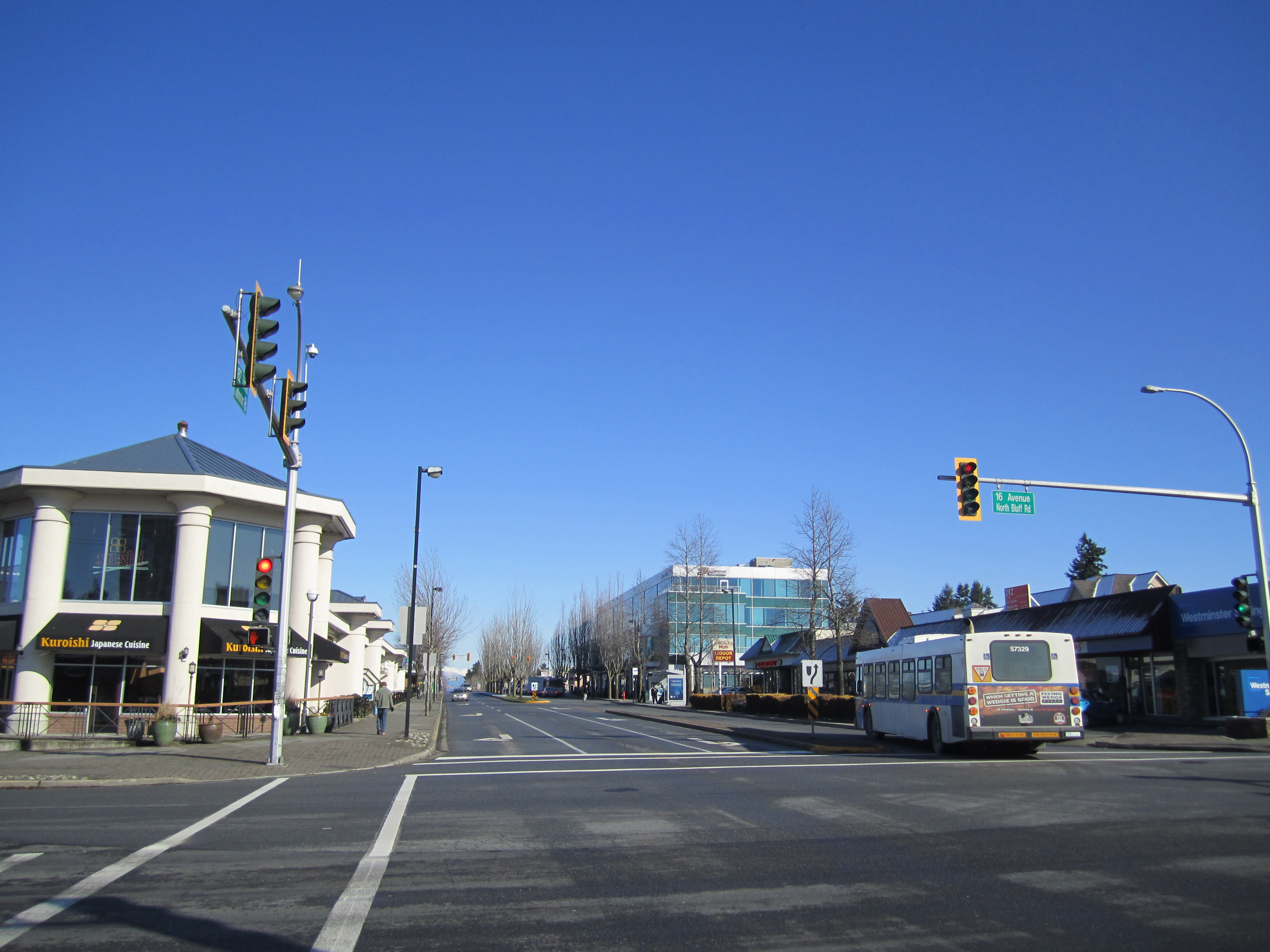 Looking north from White Rock to the main hub of South Surrey. Semiahmoo mall to the left and a strip mall to the right. March 6th, 2012.